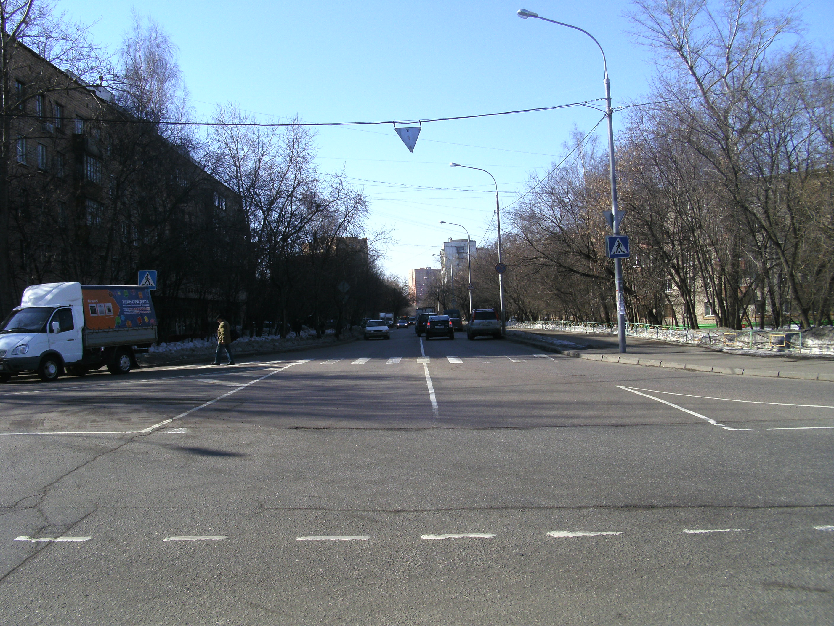 The end of Solnechnogorskaya street, Moscow, Russia